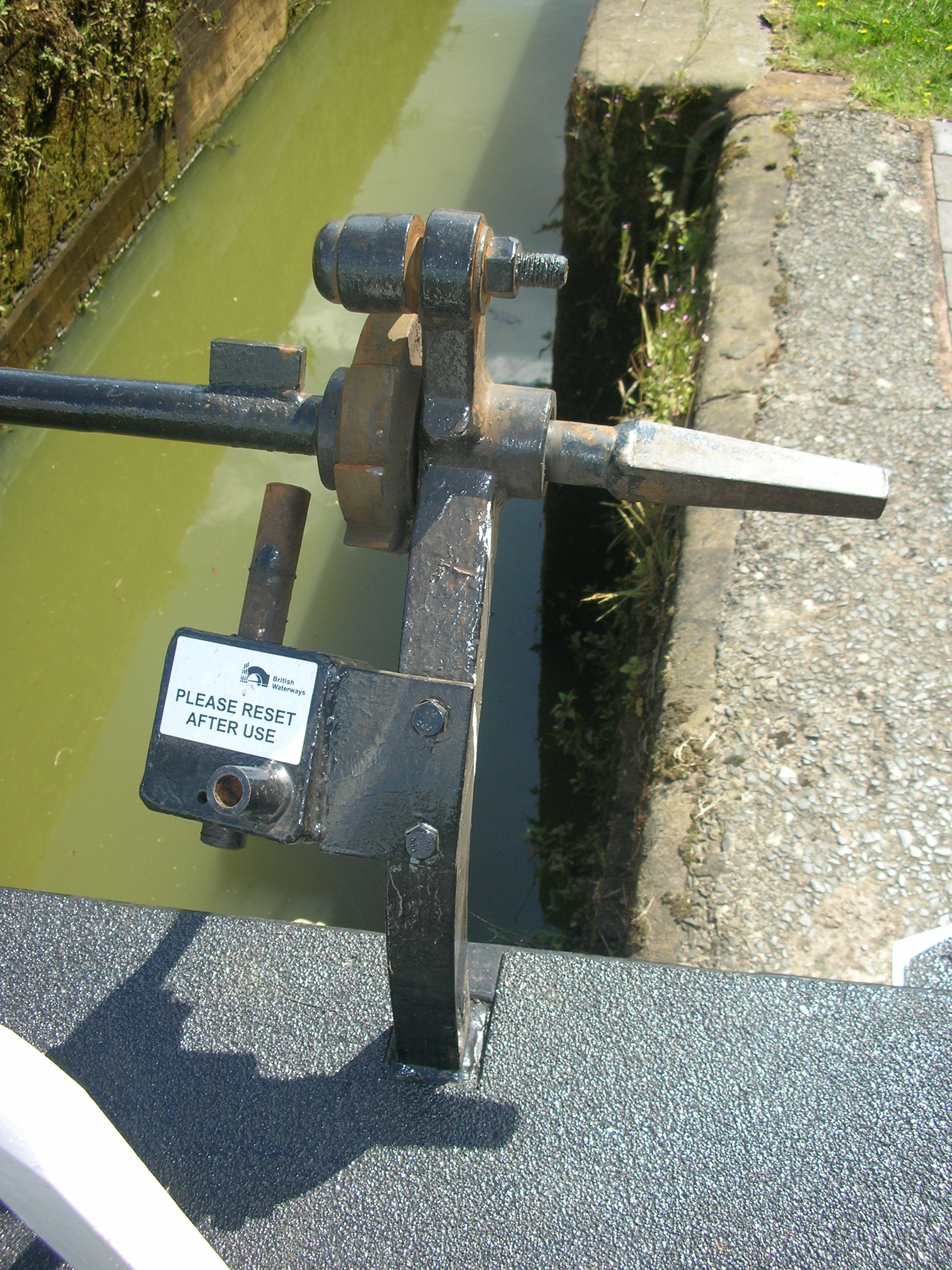 Water conservation (anti-vandal) mechanism added to many locks on the Birmingham Canal Navigations in England. A key is needed to withdraw the large bolt which prevents the paddle spindle from turning. This one is on Ryders Green No. 3 lock on the Walsall Canal. Photographed by me 9 August 2007. Oosoom